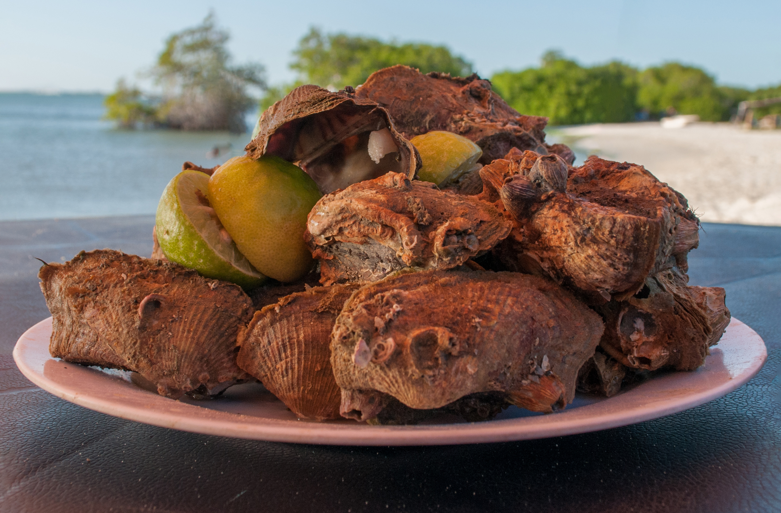 Pata e Cabra Food in Margarita island